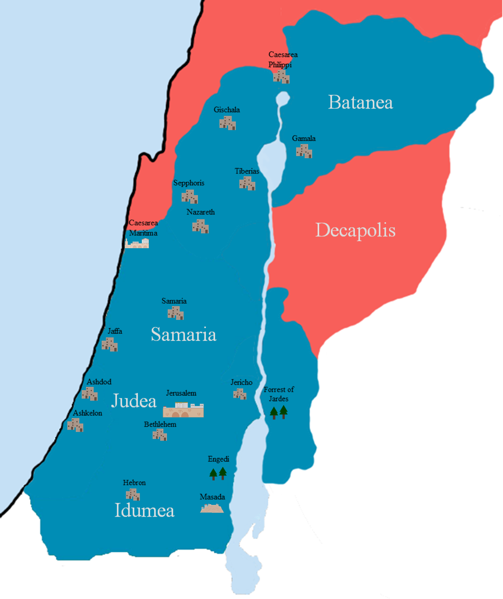 the realm given to Herod Agrippa as King of Judaea, from 41 CE to 44 CE, by Claudius Caesar.